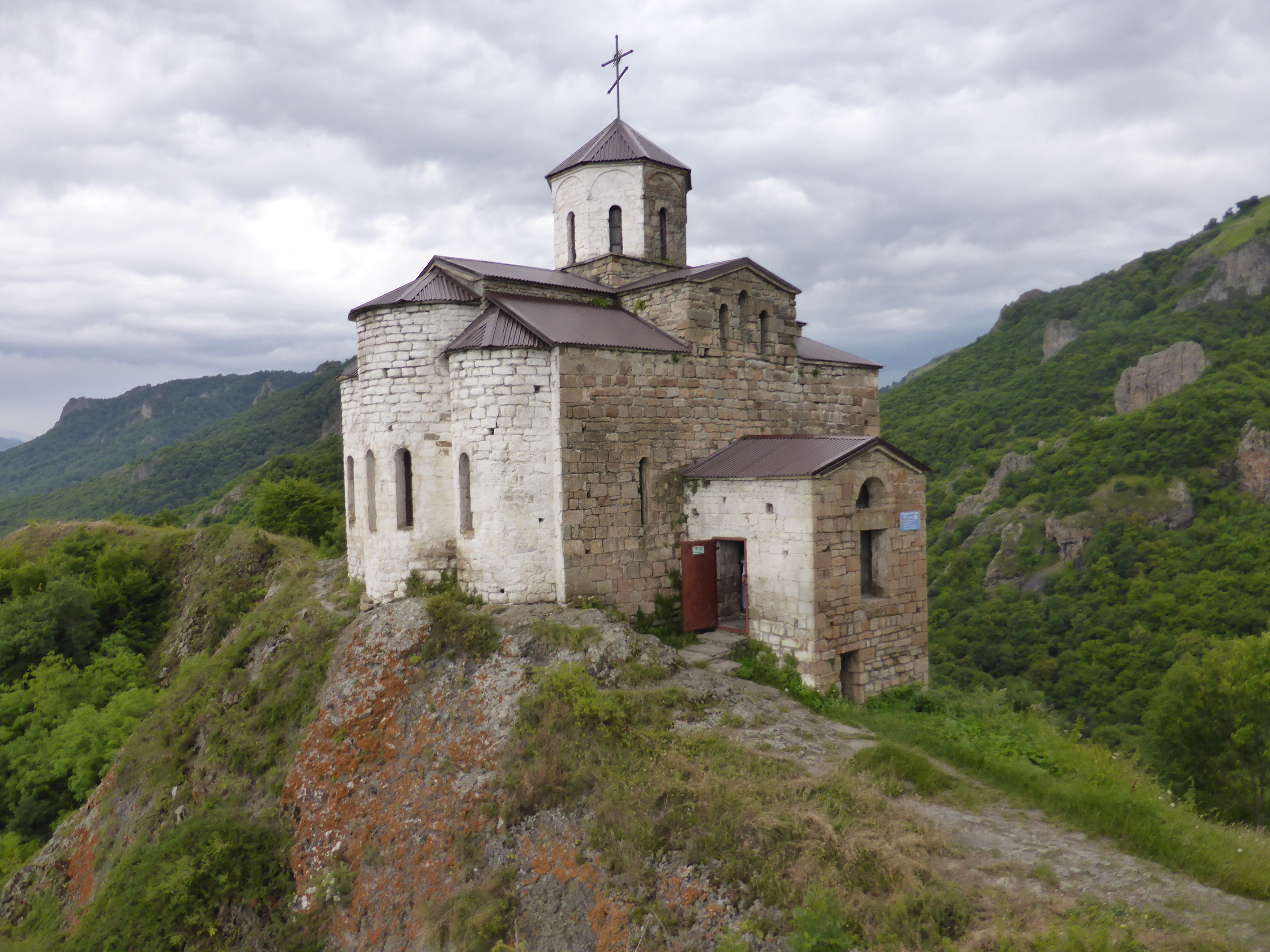 Shoaninsky ancient Christian temple